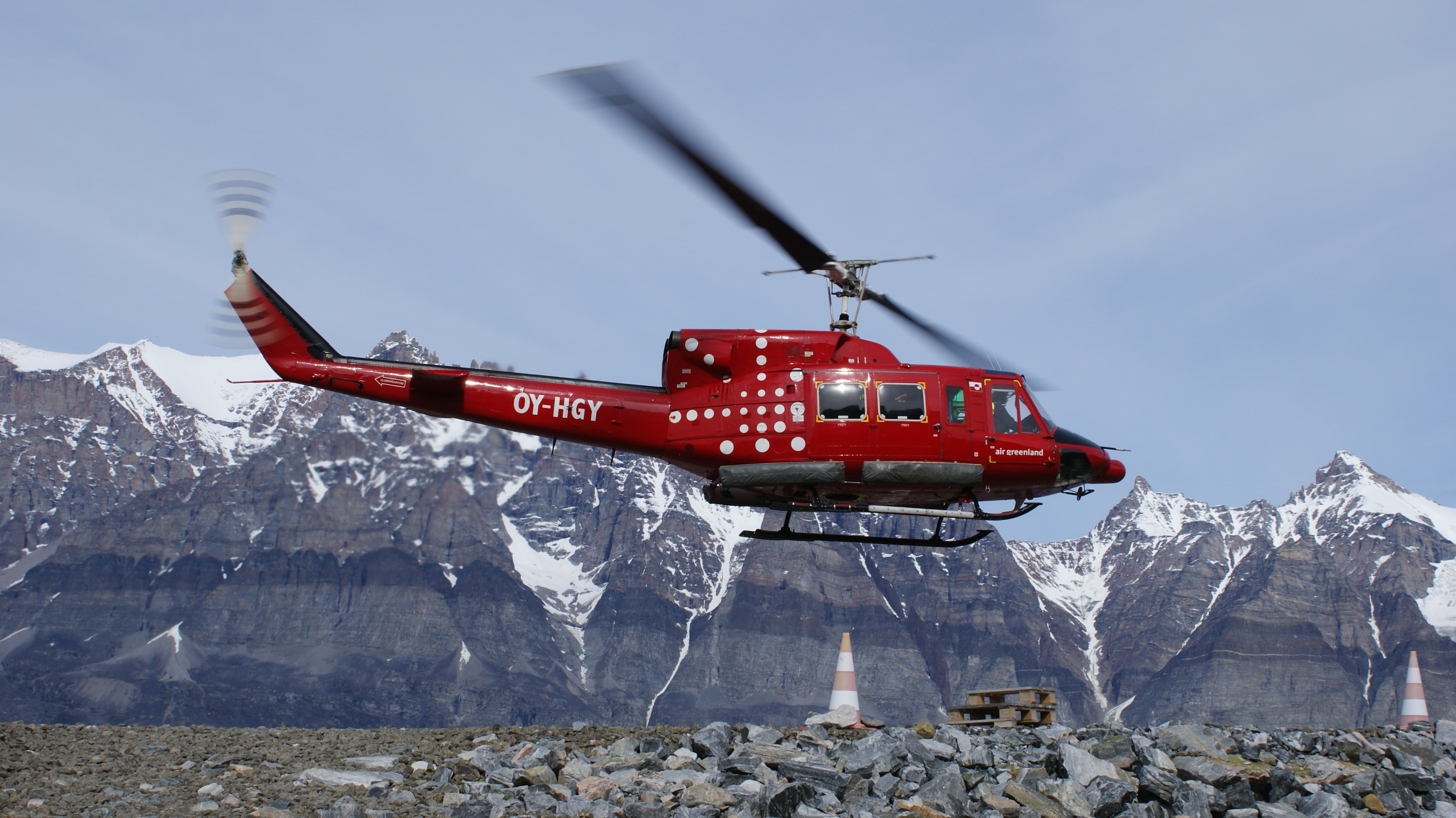 Air Greenland Bell 212 helicopter taking off from Ukkusissat Heliport, Greenland. Pellerfiup Nunaa in the background